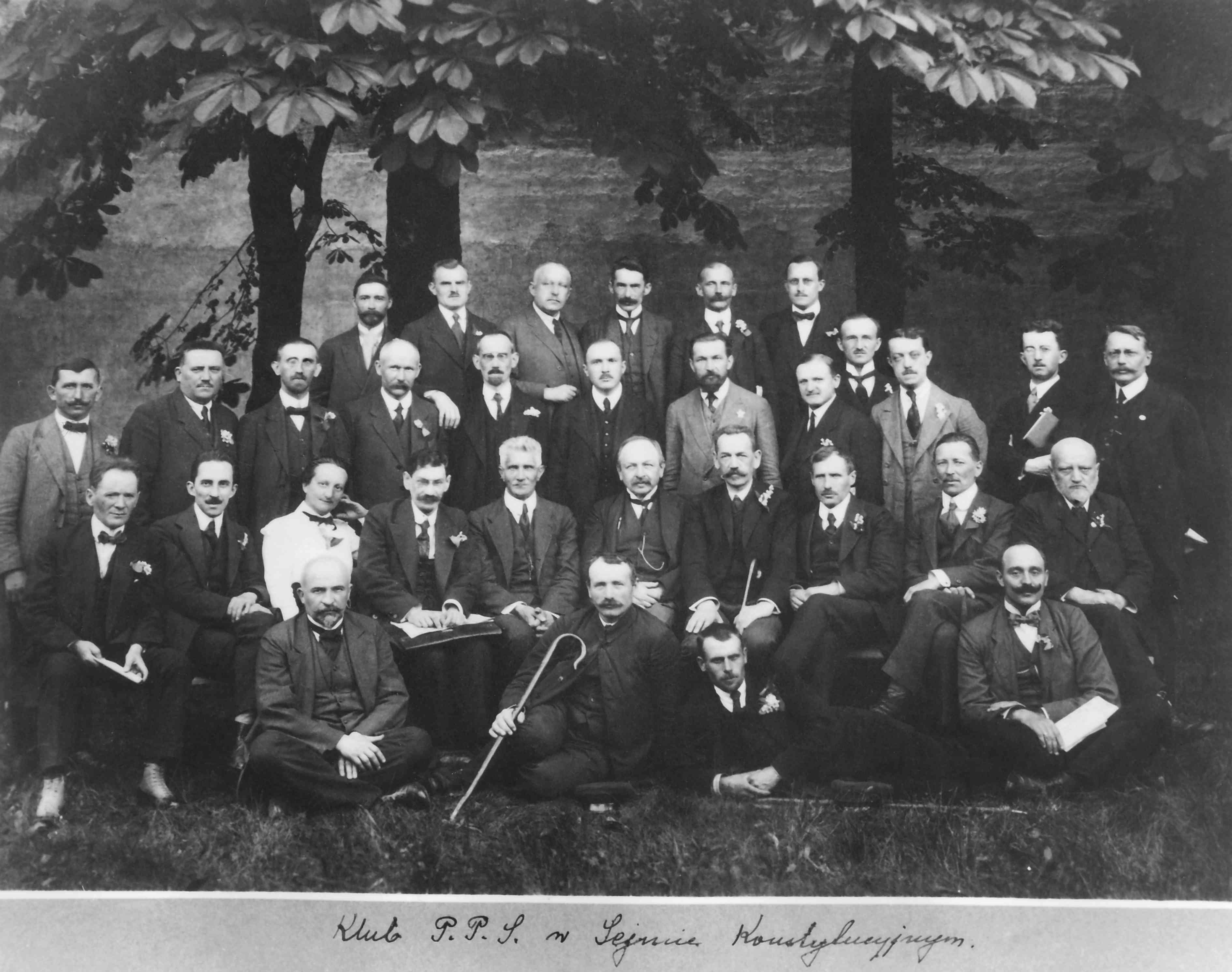 Klub Związku Polskich Posłów Socjalistycznych (ZPPS)